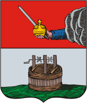 Gryazovets (Vologda oblast), coat of arms (1781)